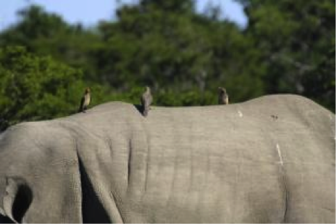 wildlife, oxpecker